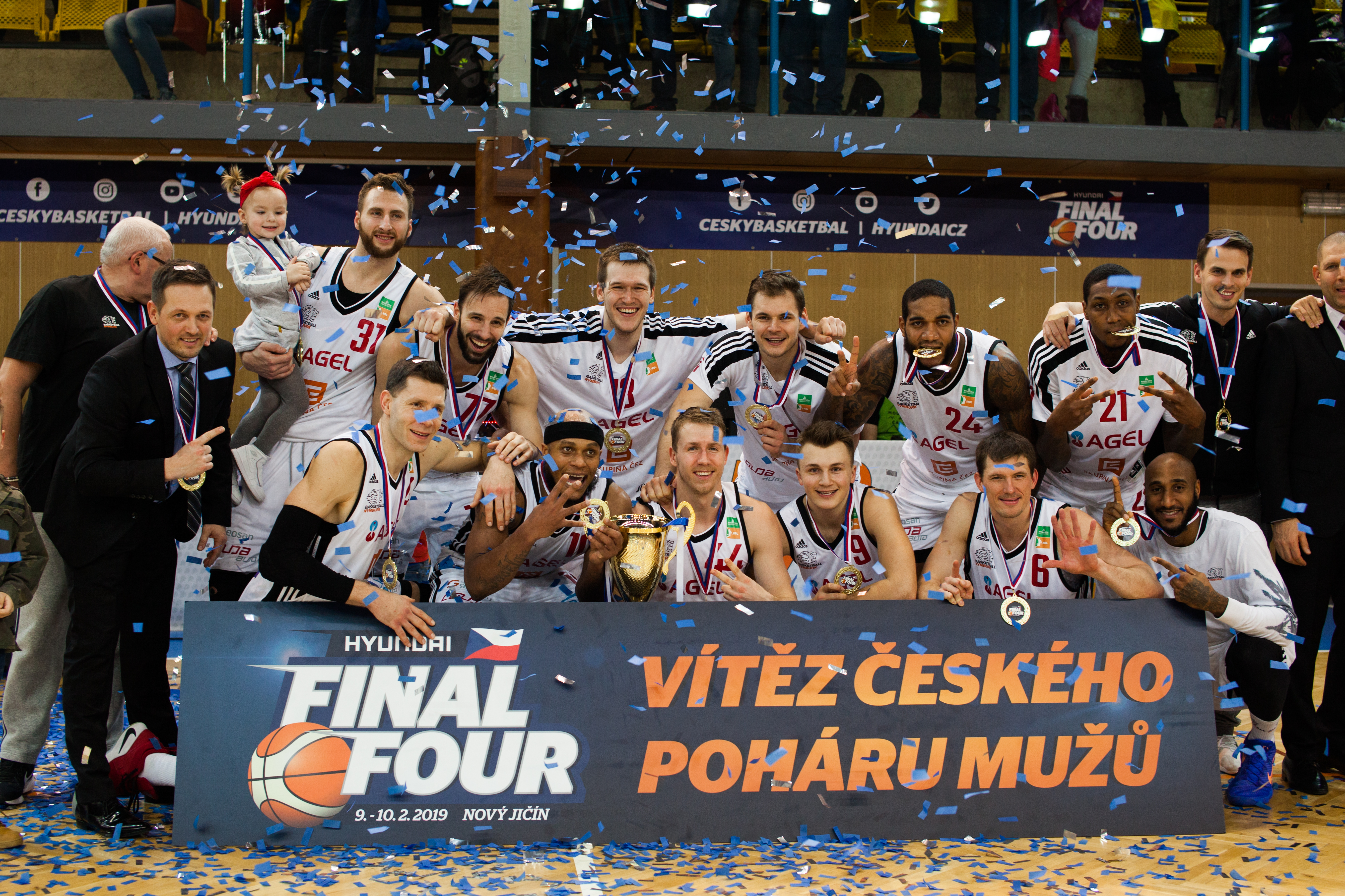 Final match of Czech basketball cup Hyundai Final4 between clubs BK Opava-ČEZ Basketball Nymburk (Nový Jičín, 10 February 2019)